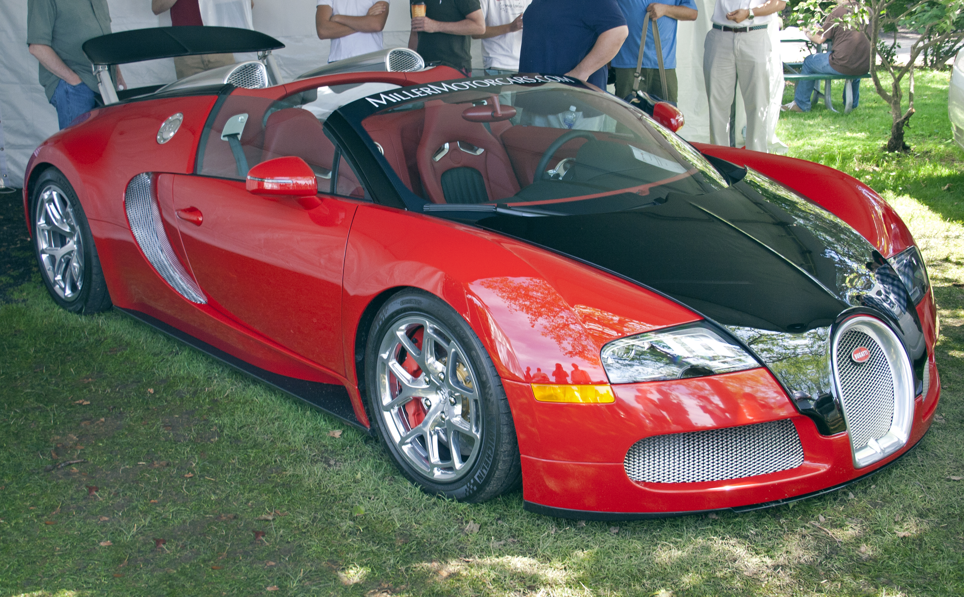 2012 Bugatti Veyron Grand Sport at the 2012 Greenwich Concours d'Elegance.